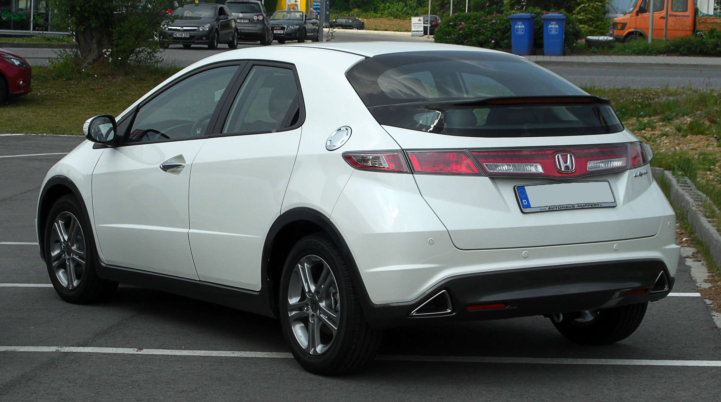 Honda Civic 1.8 50 Jahre Edition (VIII, Facelift)